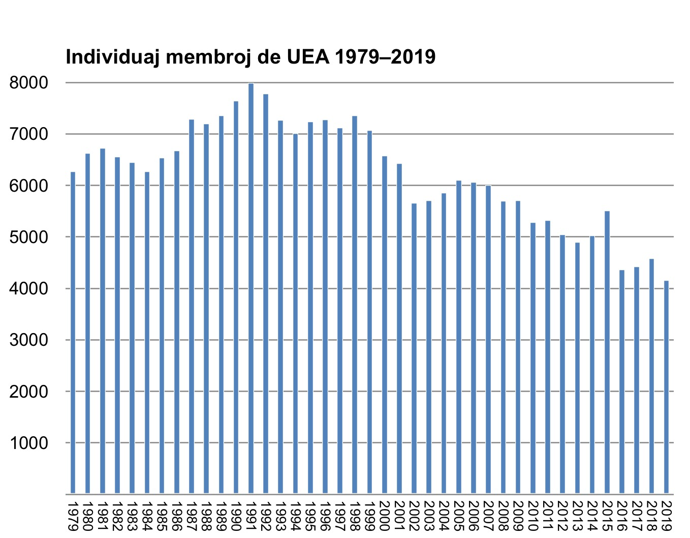 Amount of individual members of Universal Esperanto Association since 1979 until 2019.